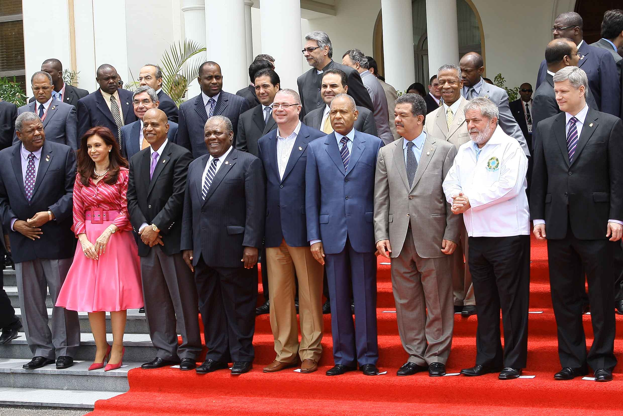 World leaders gather for a closing photograph at the 5th Summit of the Americas on April 19, 2009